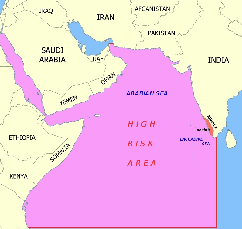 Piracy high risk zone in the Red Sea, Gulf of Aden and Arabian Sea according planning chart published by United Kingdom Hydrographic Office (2011)